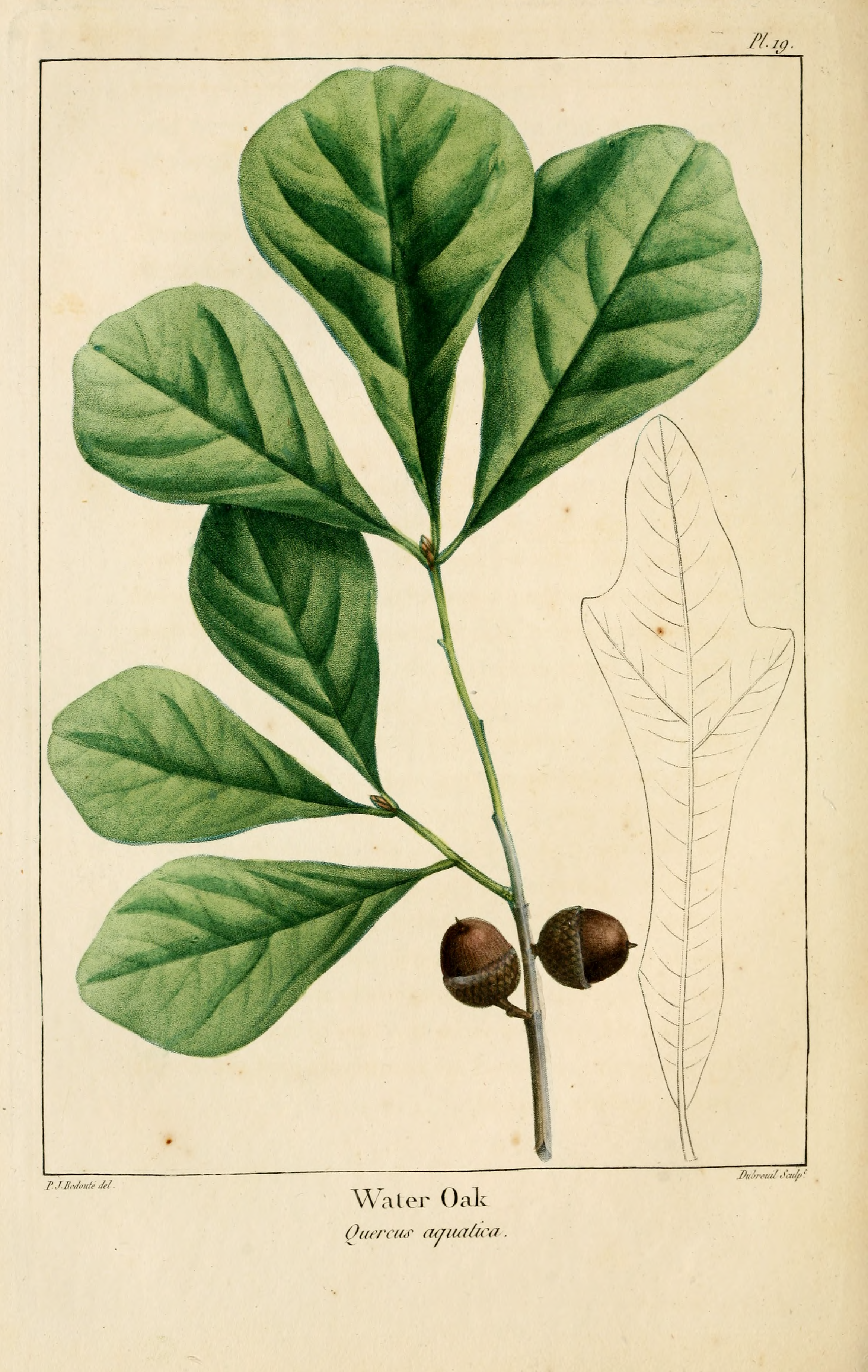 Quercus nigra